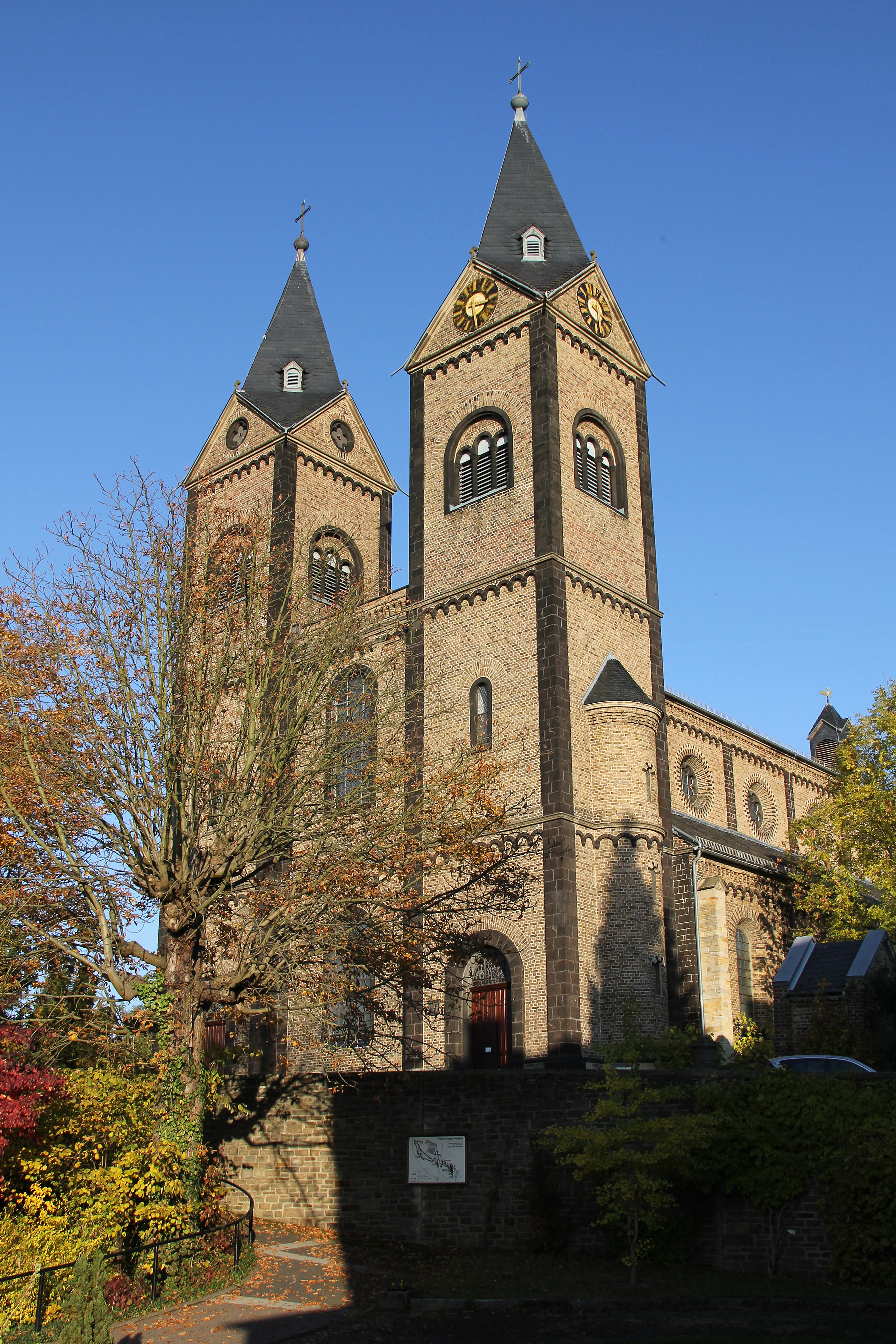 Church St. Nikolaus in Koblenz